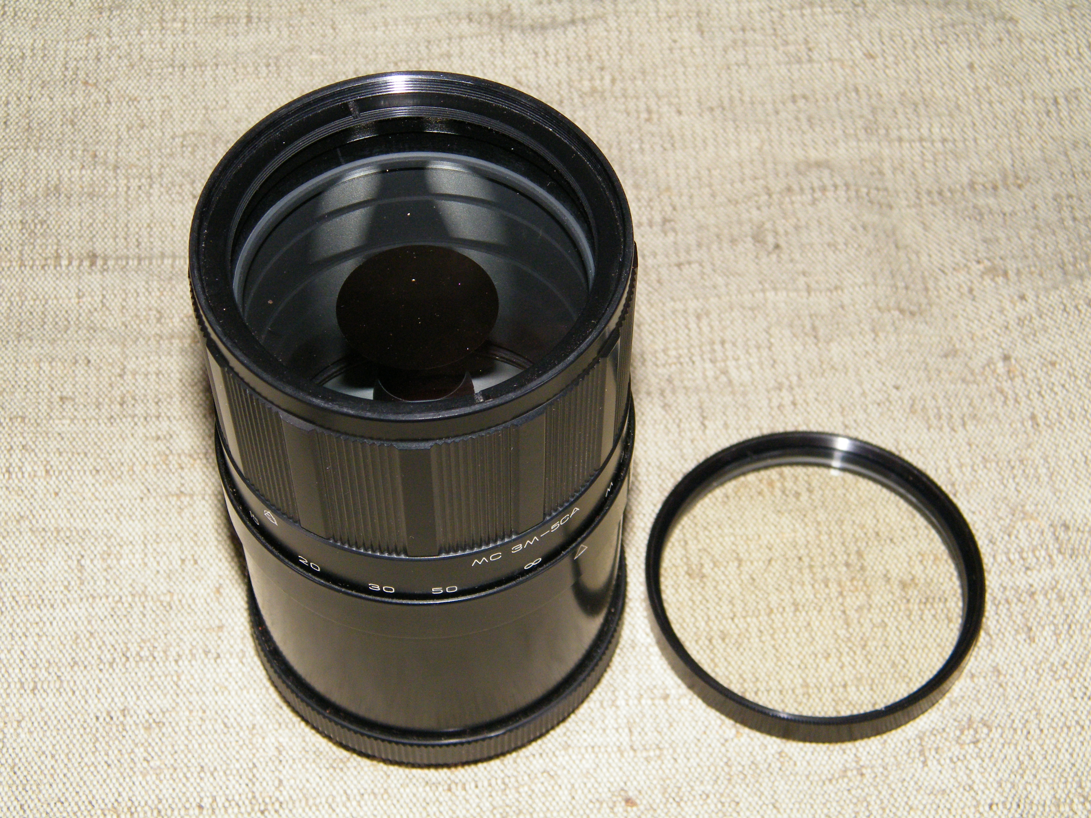 Soviet catadioptric telephoto lens «ZM-5SA».